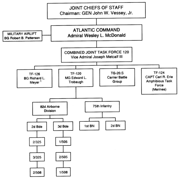 Strucure of the CJTF-120 of the publication "Fiscal Year 1984" (ISSN 0092-097880) Appendix A page 239